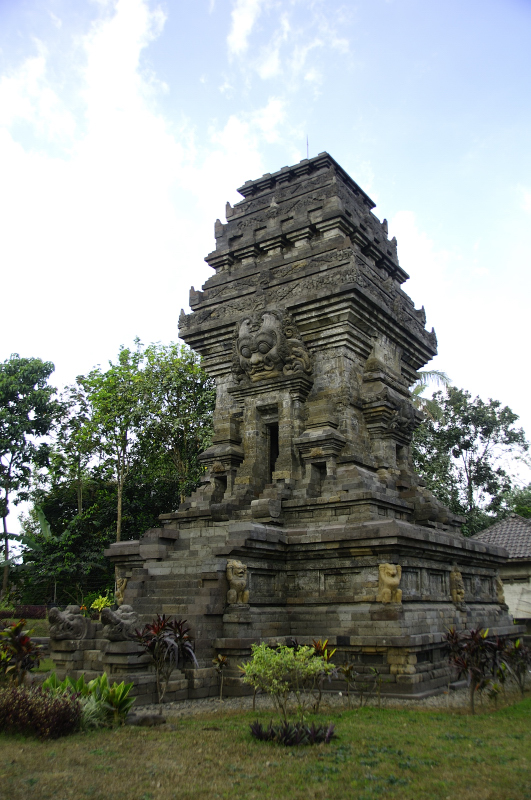 Candi Kidal, Tumpang, Malang, Jawa Timur